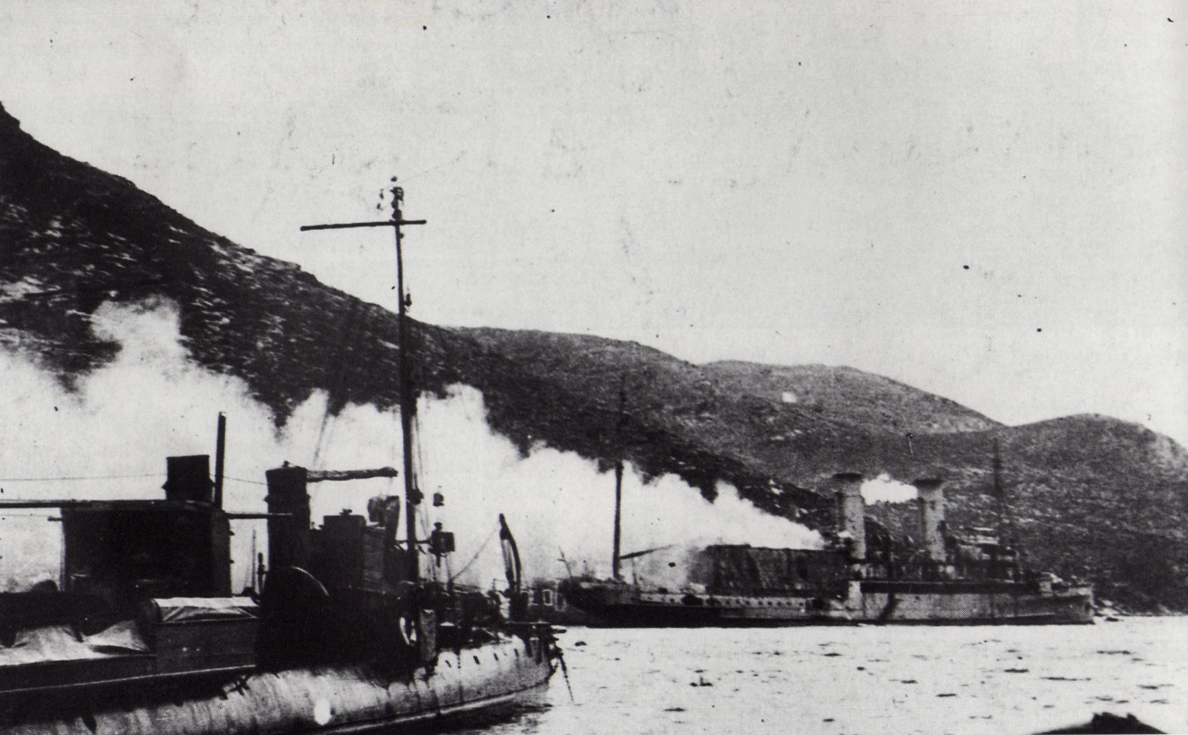 HMS Ben-my-Chree on fire of the coast at Castellorizo on the 11th January 1917